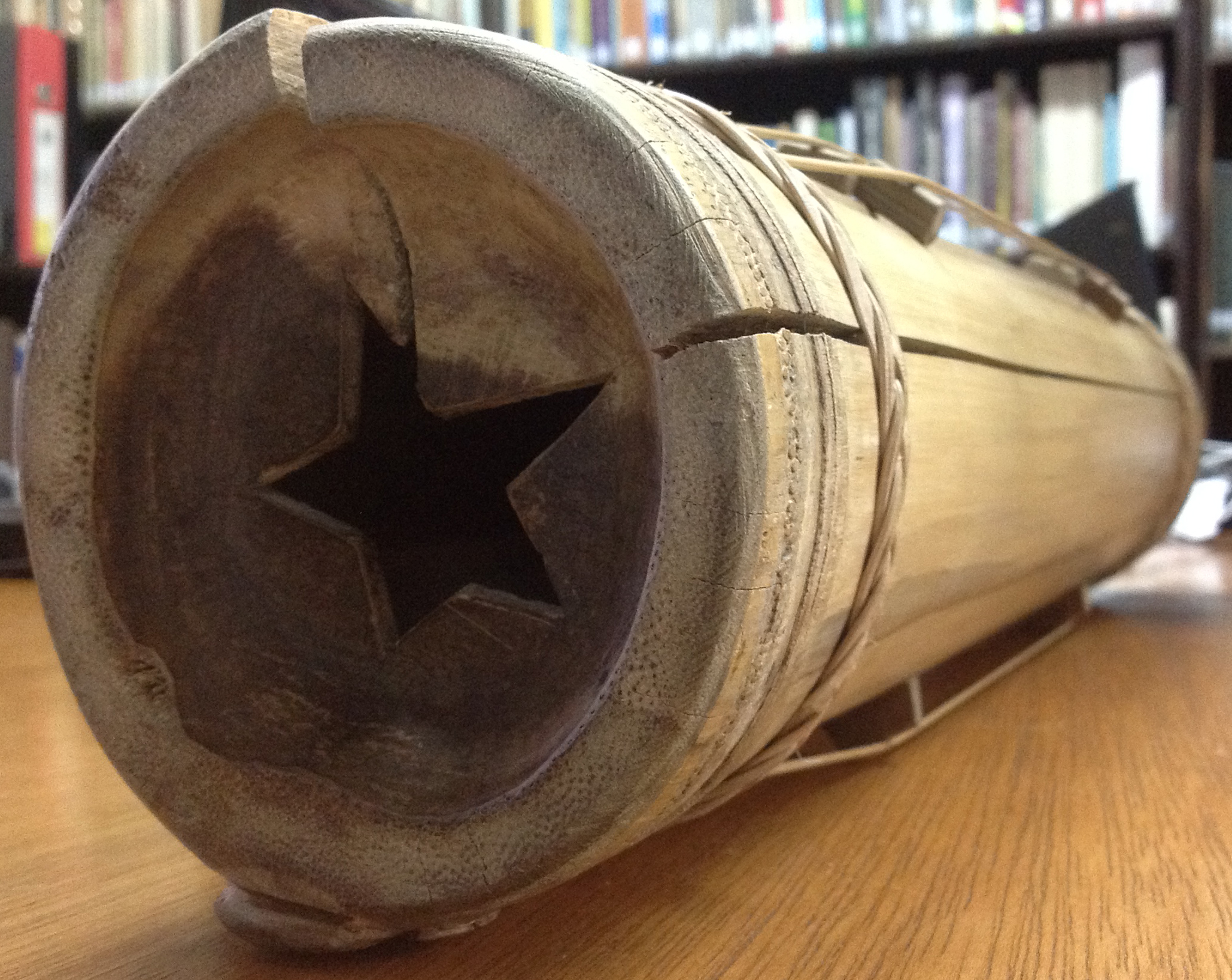 A Kolitong, a bamboo string instrument found in the Philippines. The instrument in the picture is from the University of the Philippines College of Music, Center for Ethnomusicology, Diliman, Quezon City, Philippines.